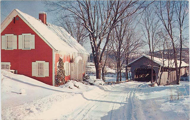 Shown here is the Bedell bridge that crosses the Conn. River from S. Newbury, Vt, to Haverhill N.H. - This postcard must date from between August 1, 1958 to January 6, 1963, inclusive, as it uses a 3¢ stamp.